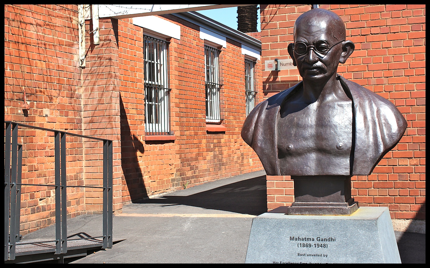 Bust of Gandhi donated by President Pratibha Patil Apartheid-era prison at Constitutional Hill, Johannesburg. A grim testament to man's capacity for evil. South Africa, Apr '13.